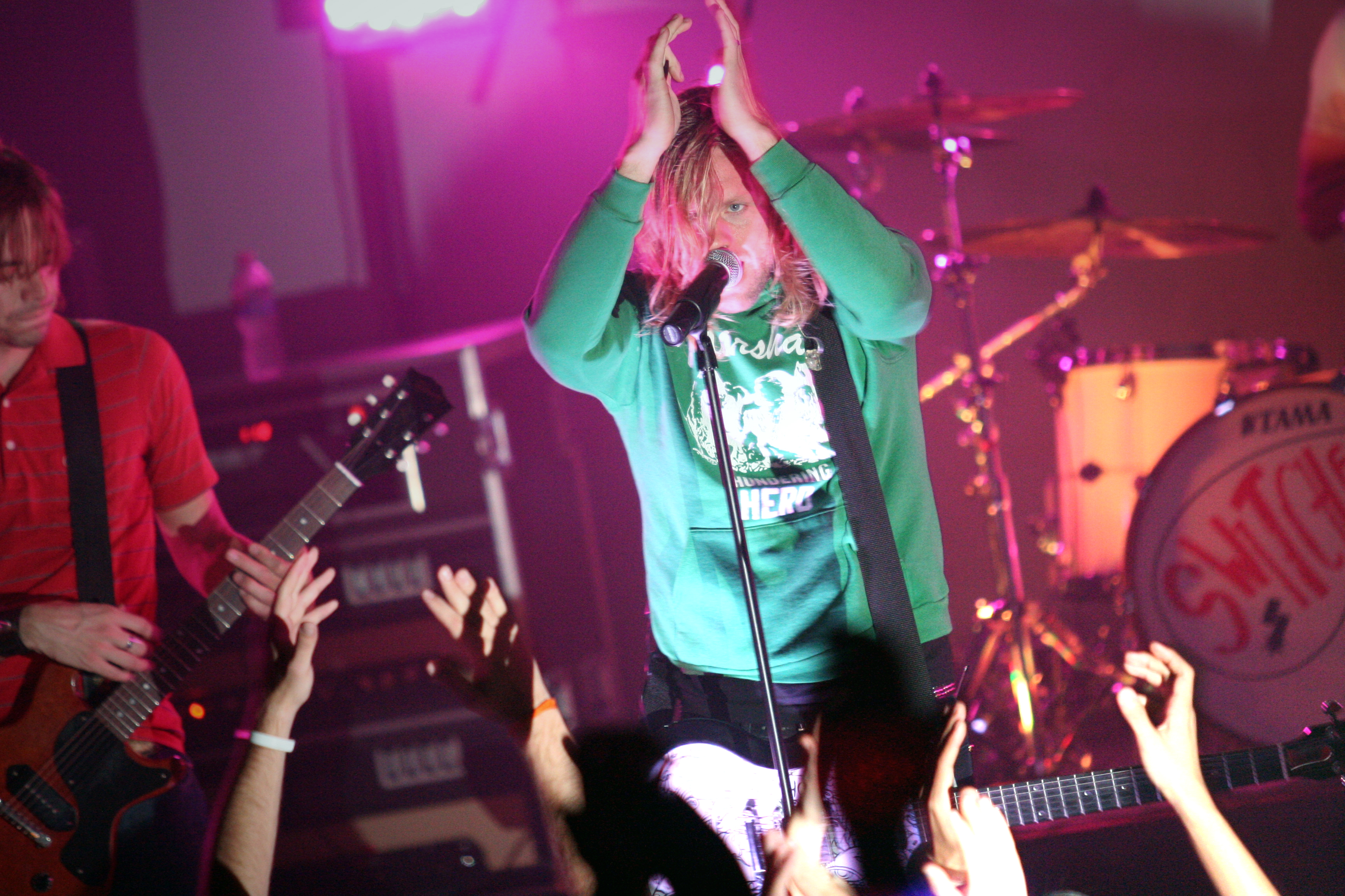 Jon Foreman of Switchfoot, during a concert at the Murray Hill Theater (Jacksonville, Florida).